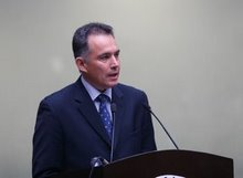 Mario Luis Fuentes picture